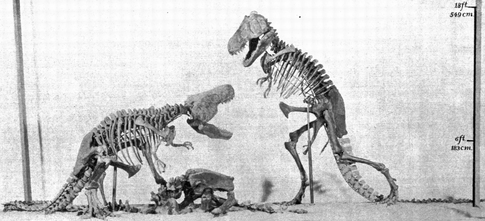 This is a scale model of a Tyrannosaurus rex exhibit which was planned by the American Museum of Natural History but never executed. The image was published in a 1913 paper written by Museum president Henry Fairfield Osborn, who died in 1935.